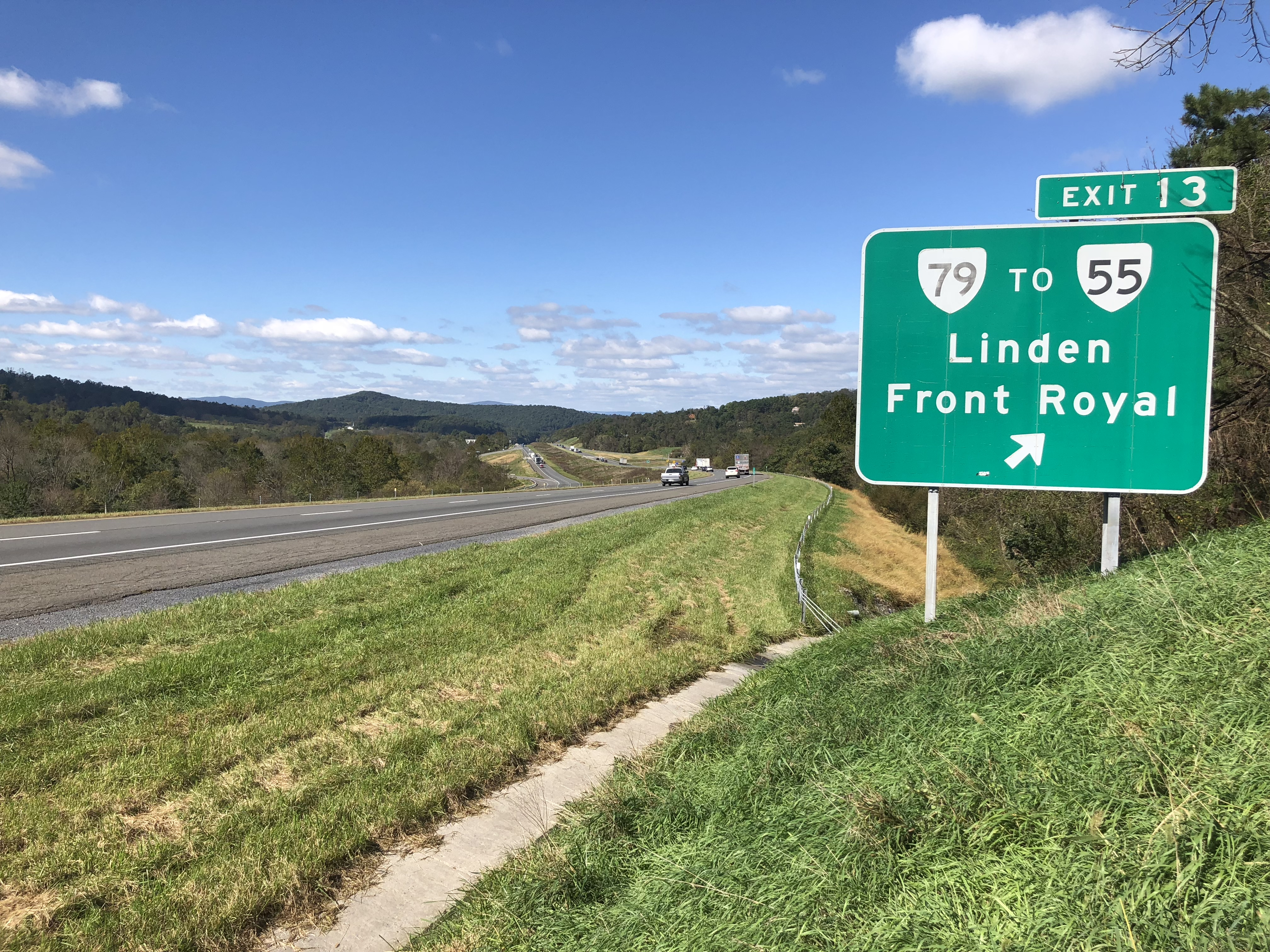 View west along Interstate 66 at Exit 13 (Virginia State Route 79 TO Virginia State Route 55, Linden, Front Royal) in Apple Mountain Lake, Warren County, Virginia